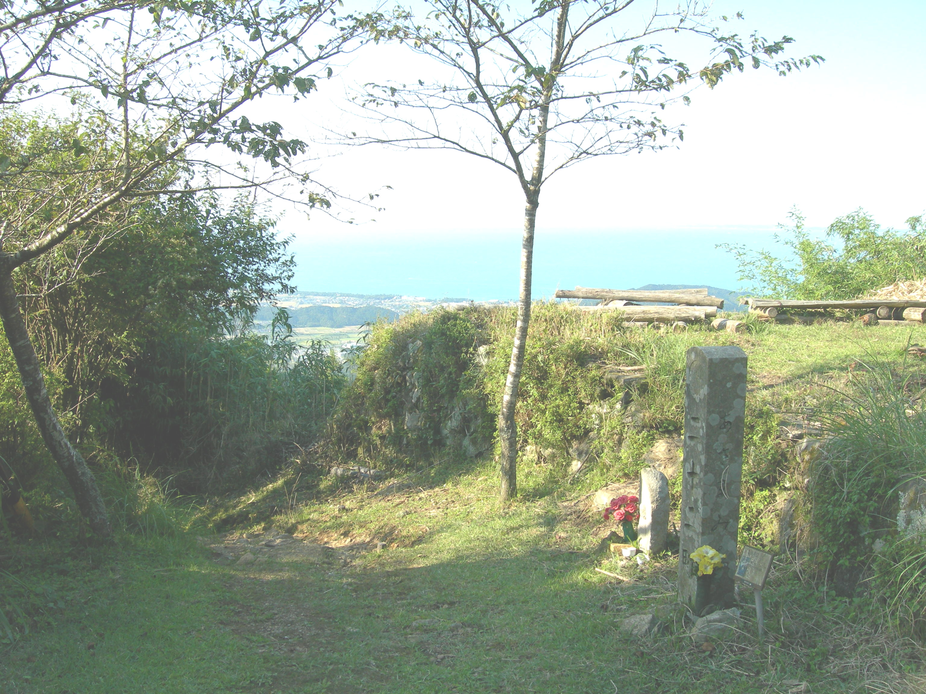 Asama pass in Ise city Mie Prf. Japan.